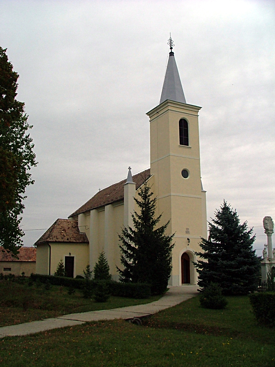 The Birth of John the Baptist church, in Pusztacsalád